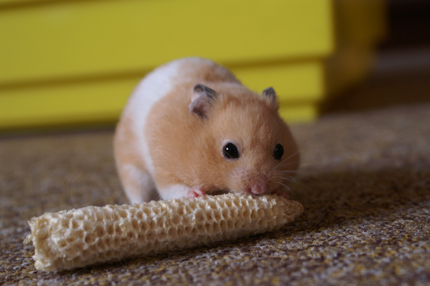 A pet Syrian (also known as Golden Hamster).